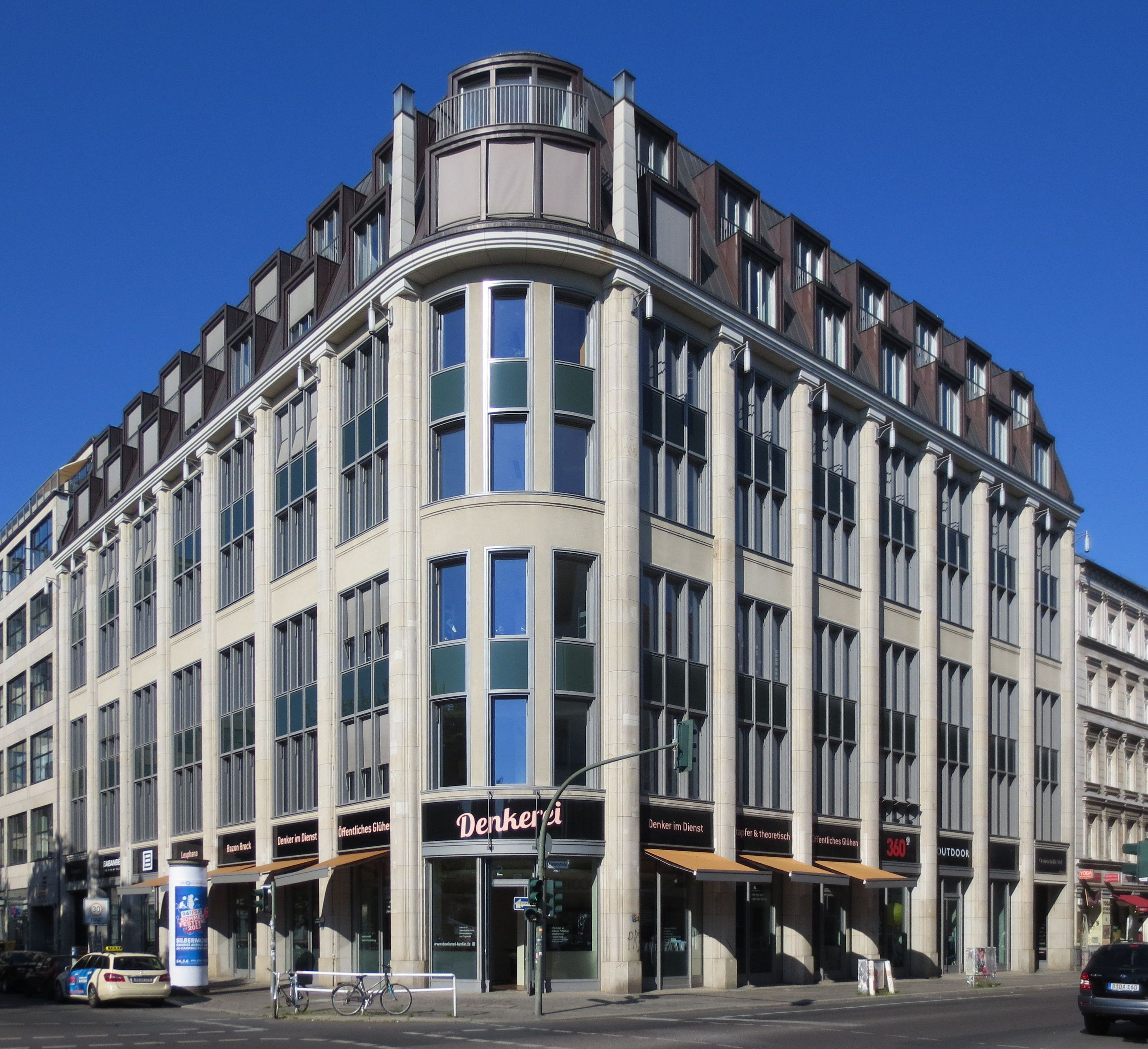 Former department store of the R. M. Maassen ladies' coats factory at Oranienplatz No. 2, corner of Oranienstraße No. 164 (on the right), in Berlin-Kreuzberg. It was built in 1904 to a design by the architects Breslauer & Salinger. The building has been designated a historic landmark. The ground floor featured the art project Denkerei (2011-2019)